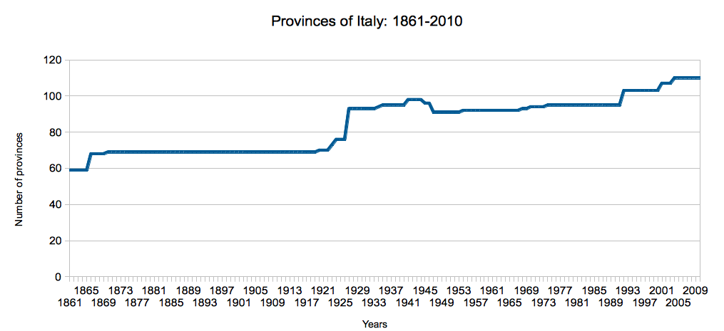 Number of provinces in Italy since 1861